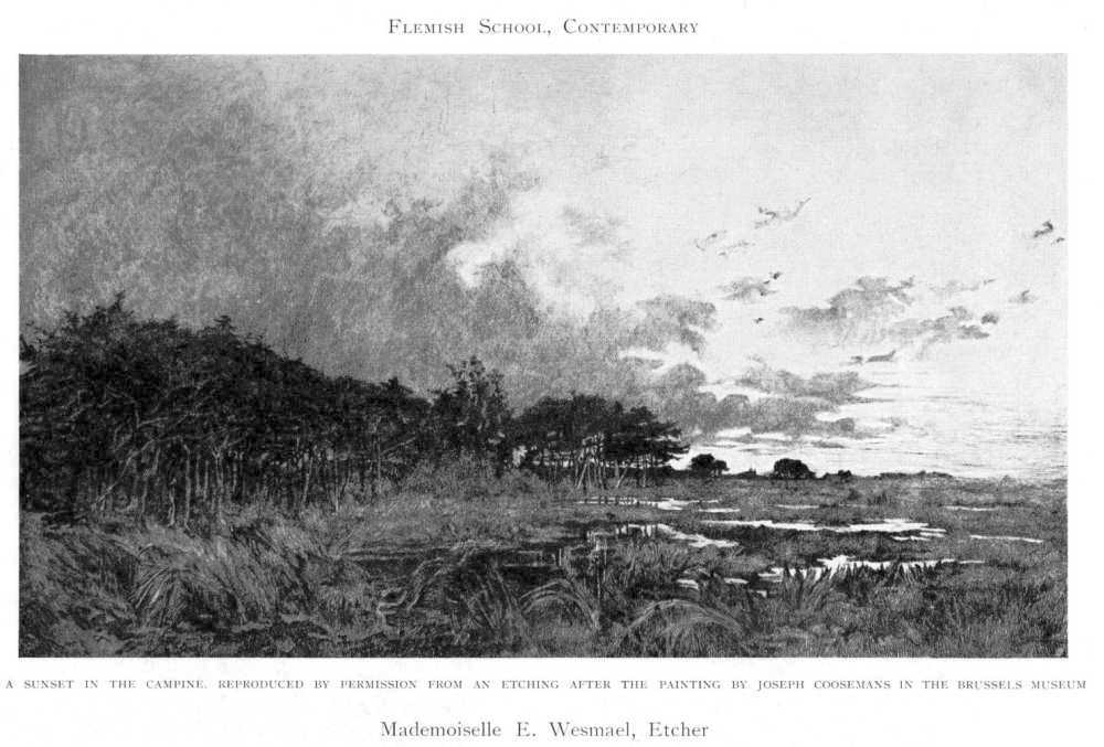 1905 print after page of Women painters of the world, from the time of Caterina Vigri, 1413-1463, to Rosa Bonheur and the present day, by Walter Shaw Sparrow, The Art and Life Library, Hodder & Stoughton, 27 Paternoster Row, London